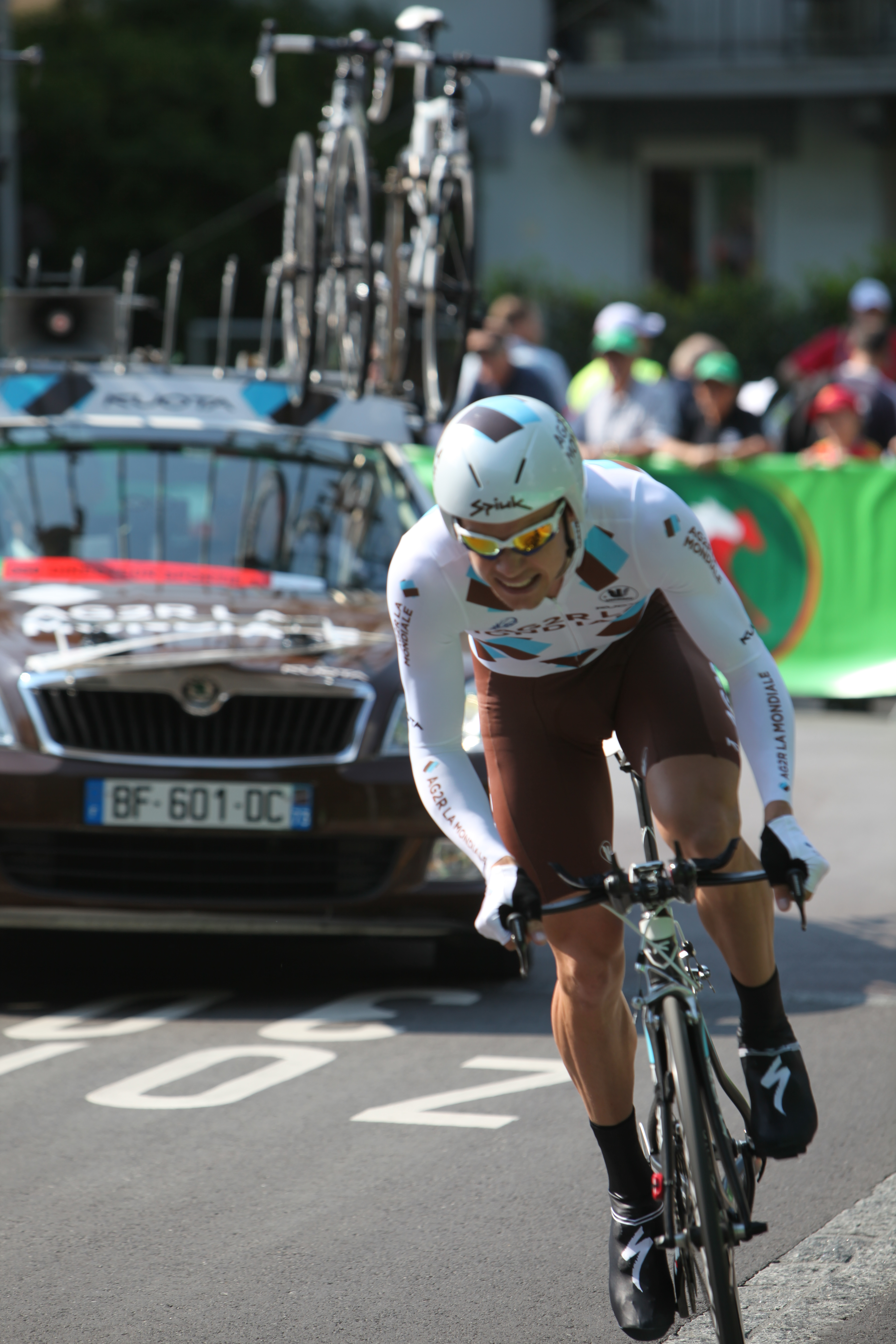 Nicolas Roche at the prologue of the Tour de Romandie 2011